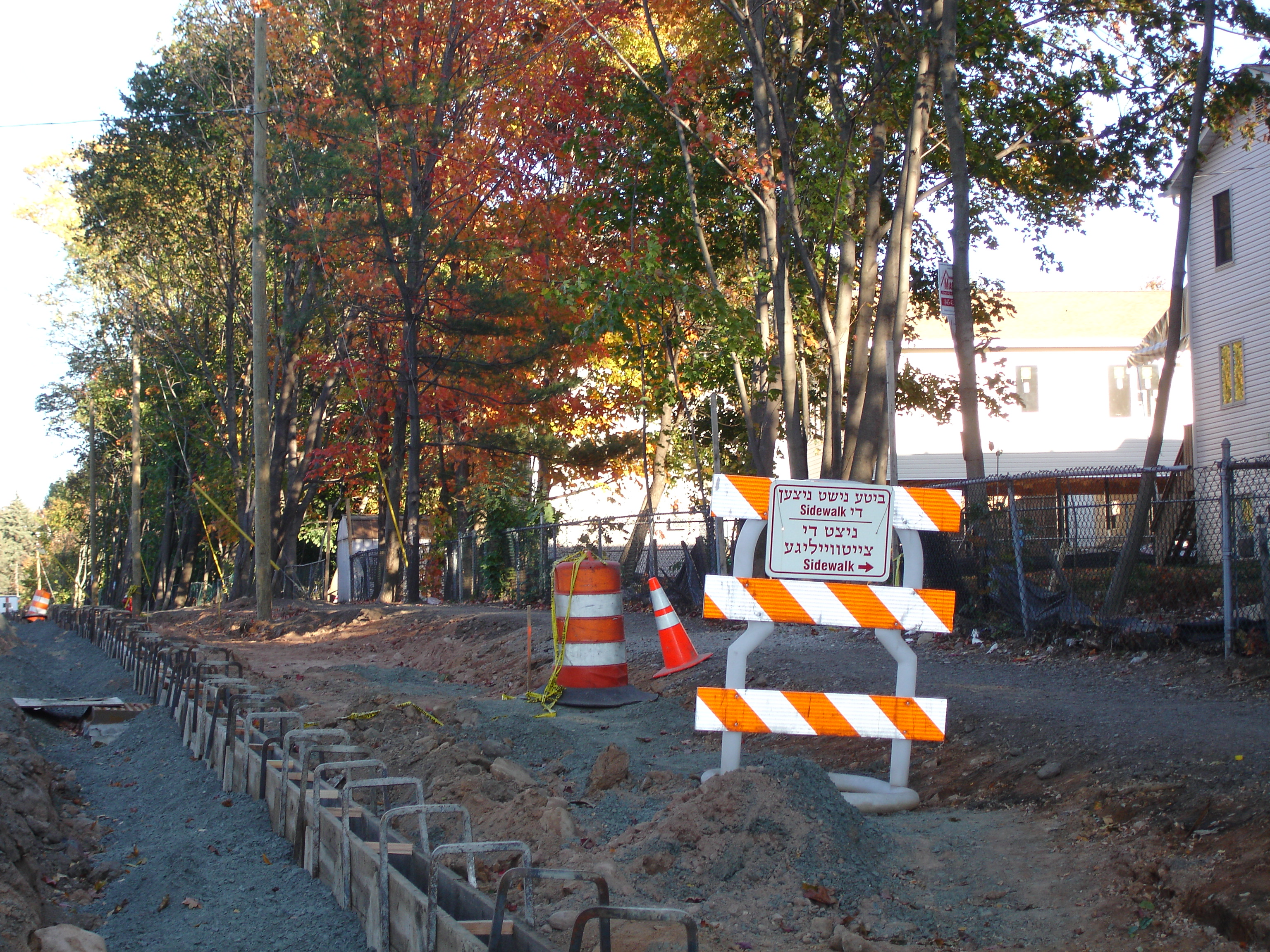 A road sign in Yiddish at a construction site in Monsey, NY. The top reads, Bite nisht nitzen di sidewalk. The bottom says, Nitzt di tzeitweilige sidewalk. Translation: "Please don't use the sidewalk. Use the provisional sidewalk."